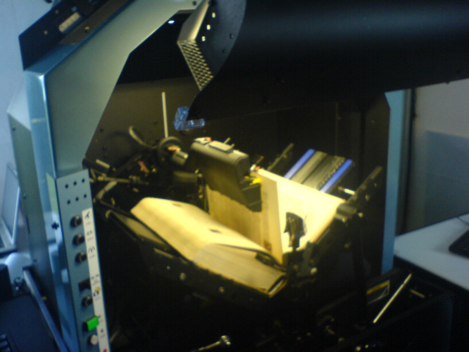 book scanner "Kirtas APT BookScan 1200" developed by Kirtas Technologies Inc.